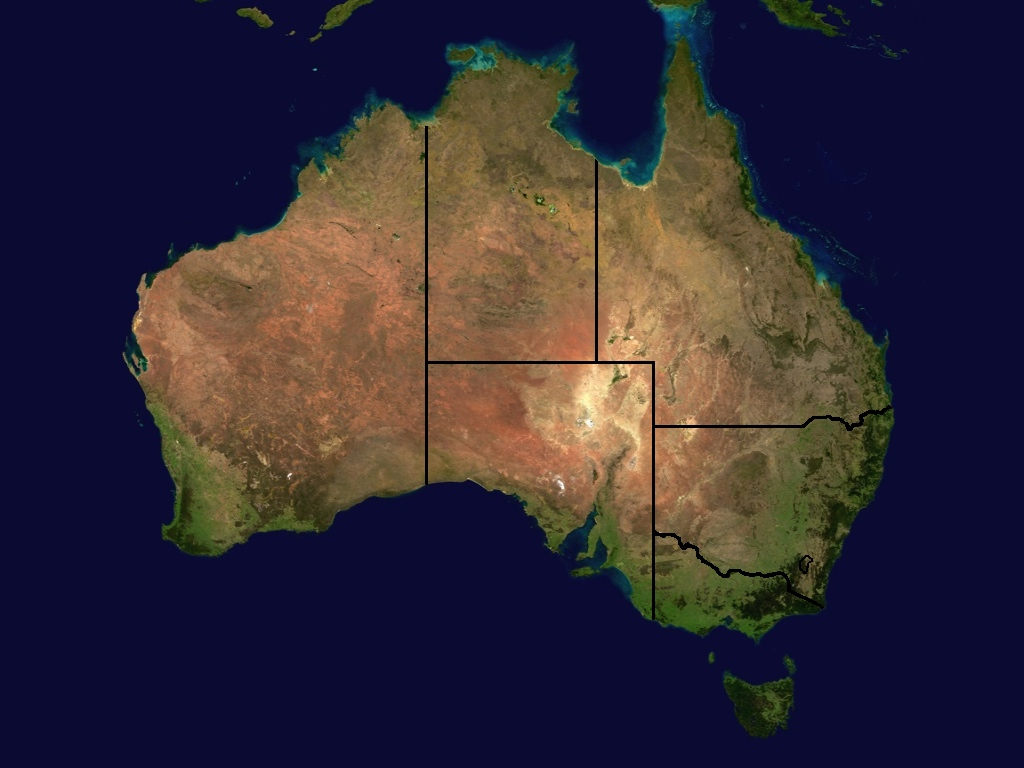 A map of the states and some territories of Australia. A merger of Image:Australia_satellite_plane.jpg and Image:Australia_location_map.png at 1024x768. Licensing